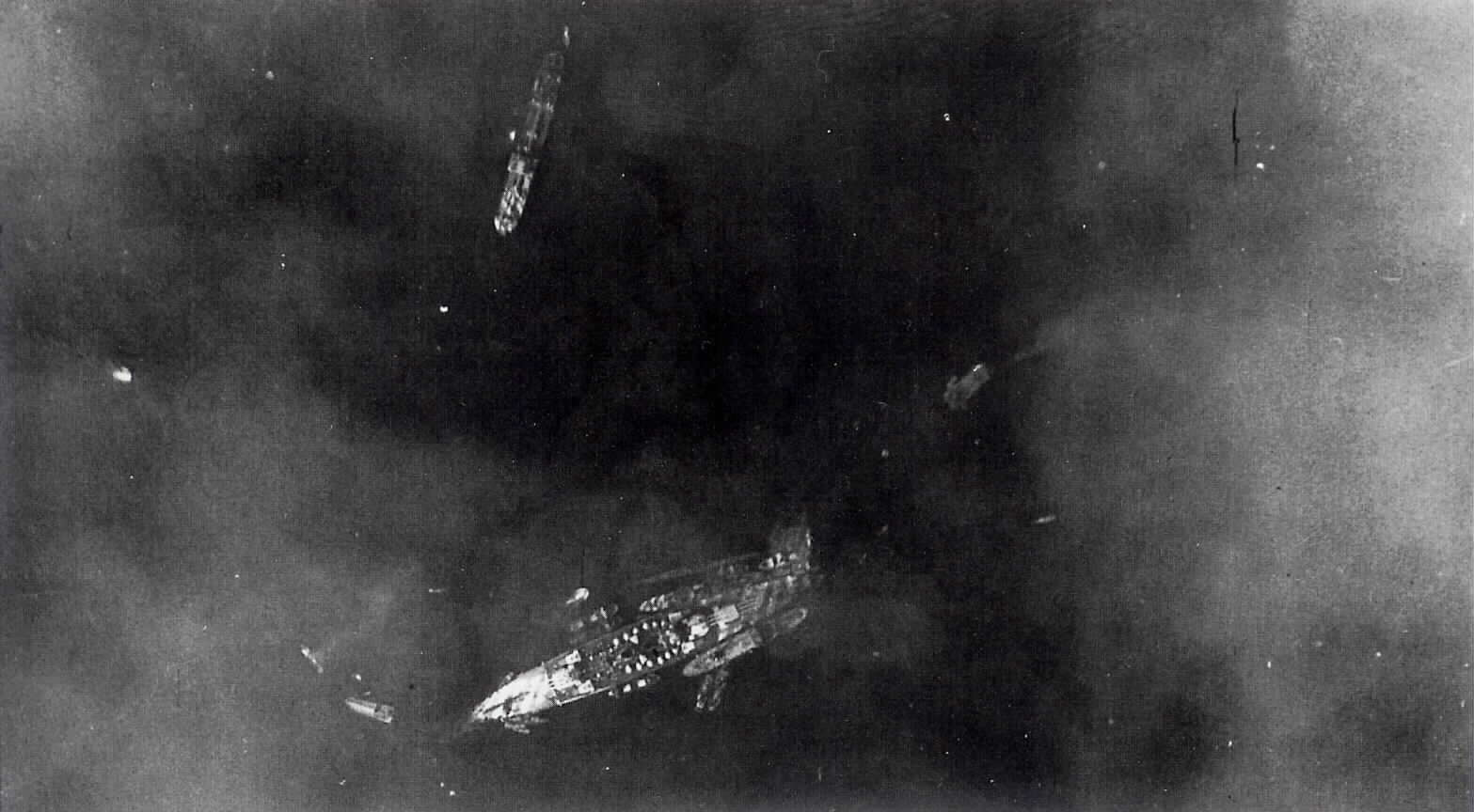 AWM: TARANTO, ITALY, 1940-11. AERIAL VIEW SHOWING AFTERMATH OF ACTION AGAINST THE ITALIAN FLEET IN TARANTO HARBOUR. NHHC: Italian BB LITTORIO of Littorio Class (1937-1948). Ship later renamed ITALIA. Photo 1940. November 12, 1940 Taranto attack. December 11, 1940 entered dock for repairs.